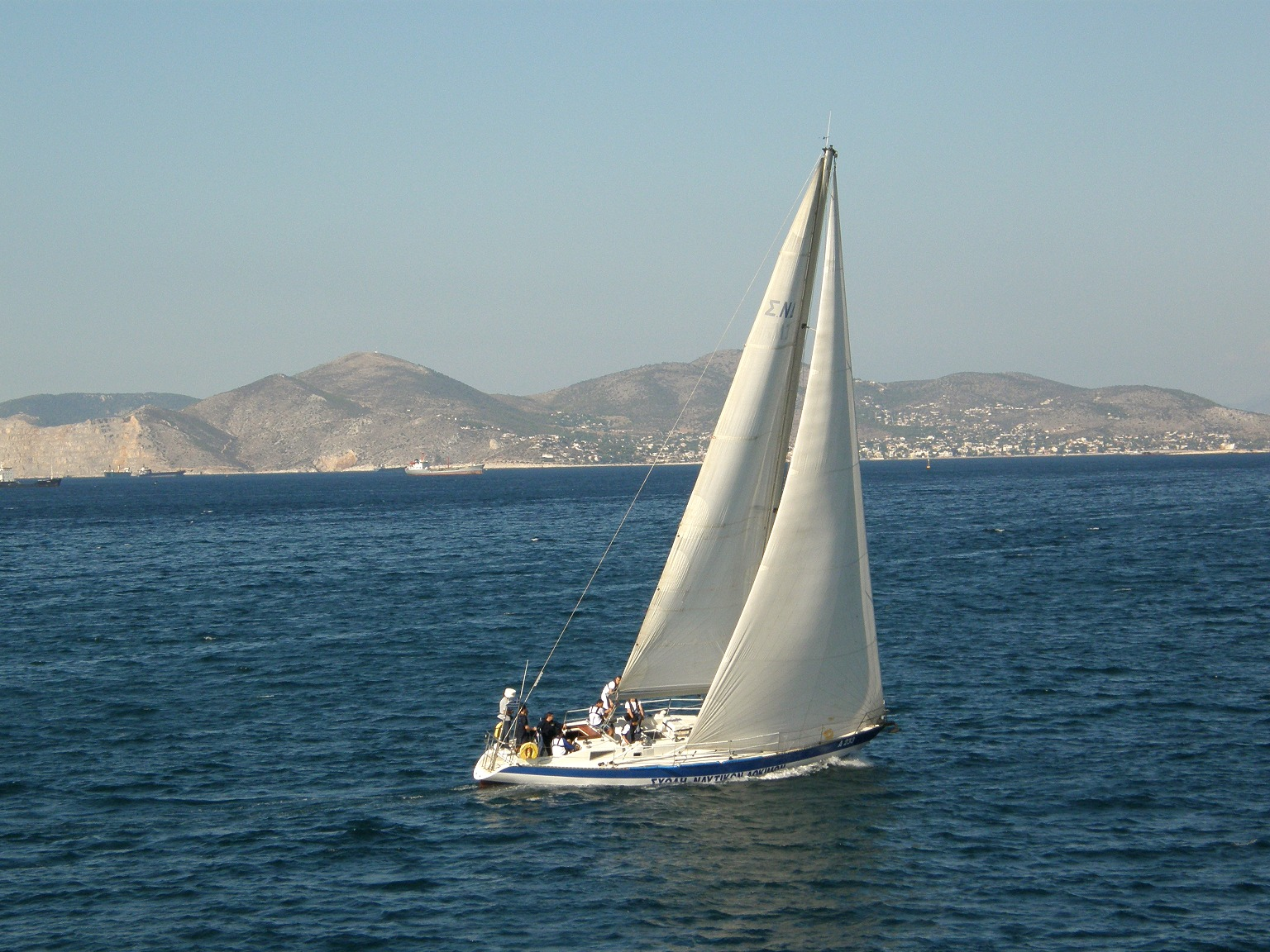 Sloop A233 of the Hellenic Naval Academy sails past Piraeus Penninsula, Greece, with a crew of naval cadet officers (midshipmen).